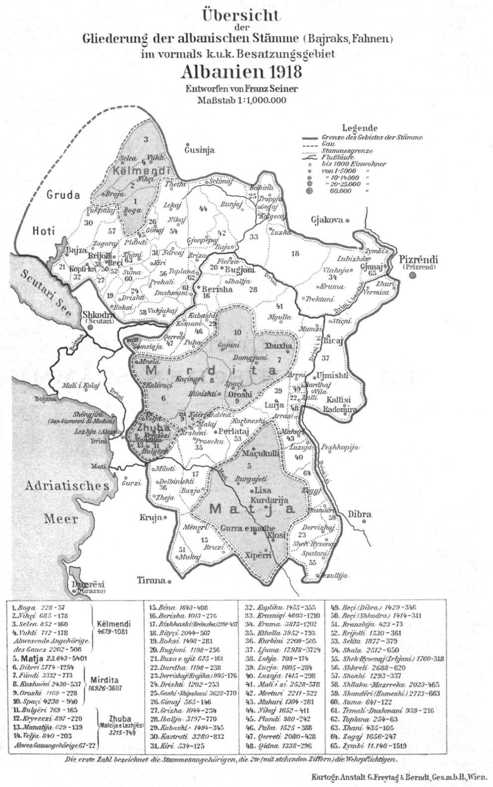 Overview of Albanian tribes (Bajraks, flags). Albania 1918. Made by Franz Seiner.